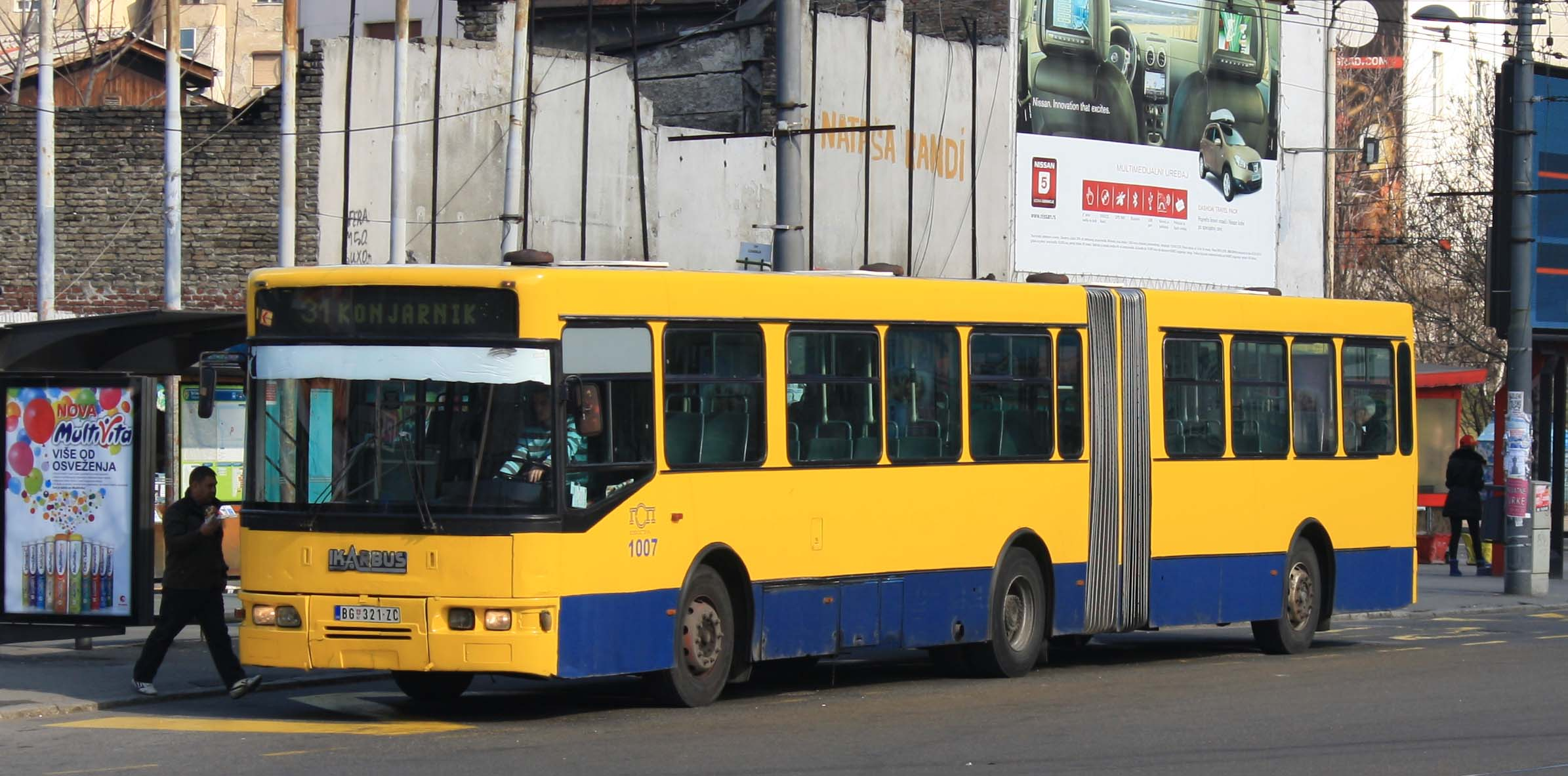 Ikarbus IK 201 city bus of GSP Beograd at Slavija.